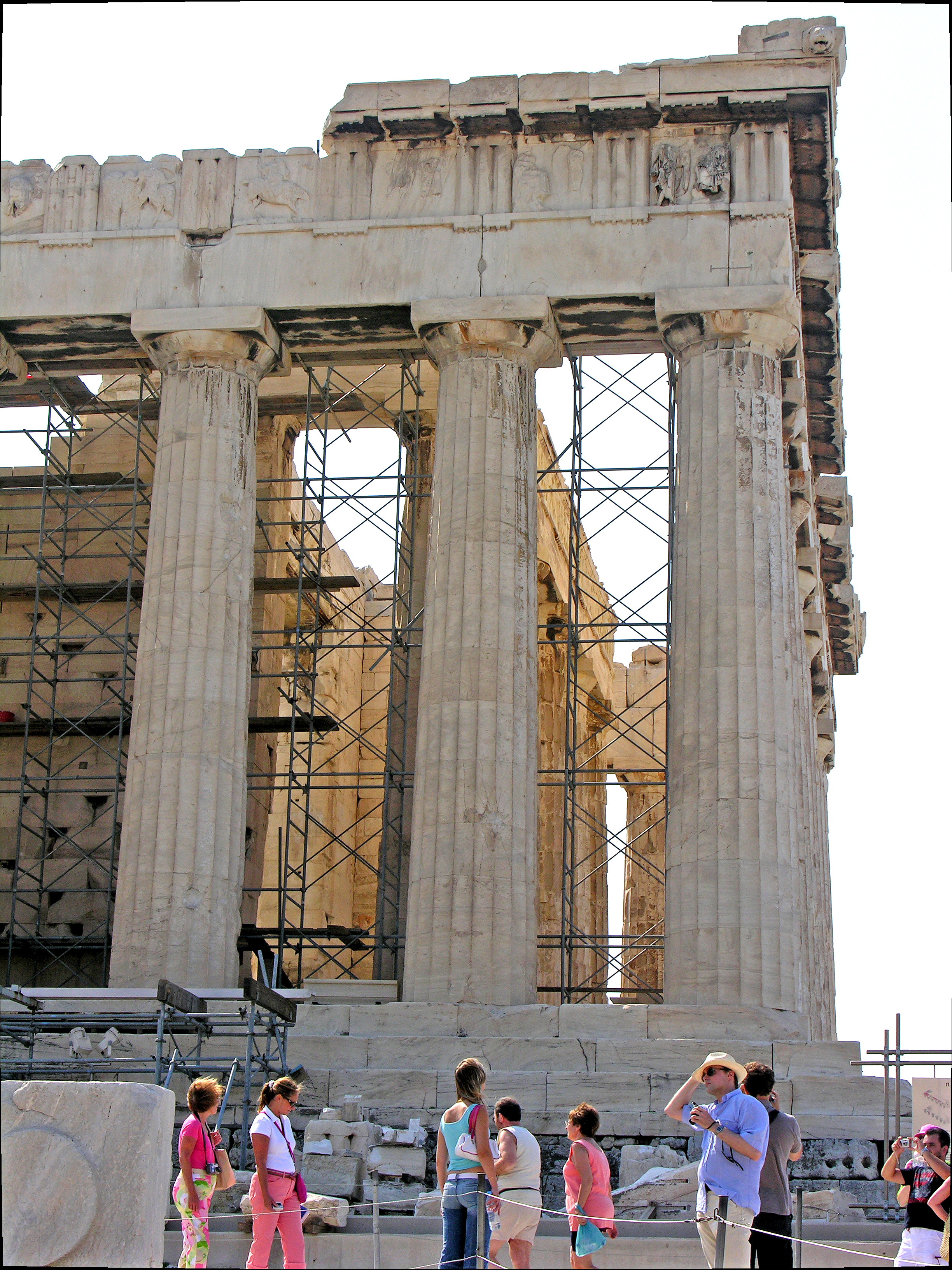 Part of the northern facade, extreme west, of the Parthenon, Athens, Greece